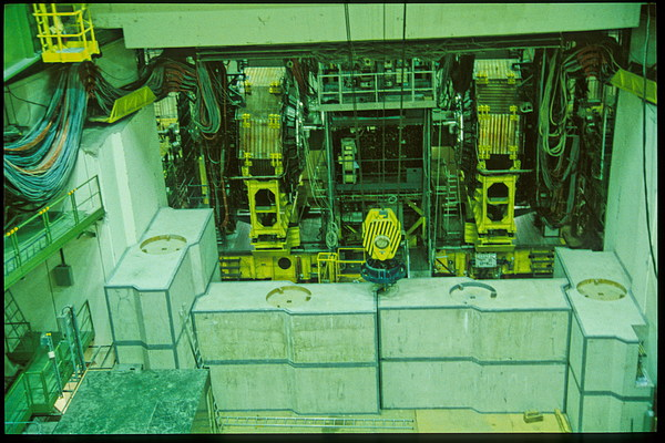 copyright S.Grünendahl 2007